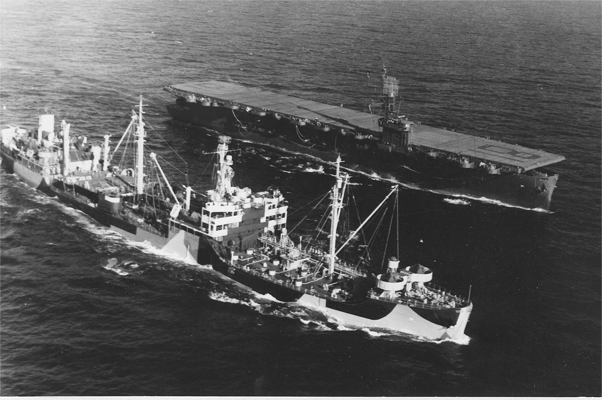 The U.S. Navy fleet oiler USS Severn (AO-61) and the escort carrier USS Rudyerd Bay (CVE-81) steaming together in April 1944, before Rudyerd Bay received her dazzle pattern camouflage.